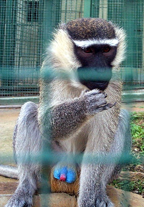 Adult male Vervet Monkey